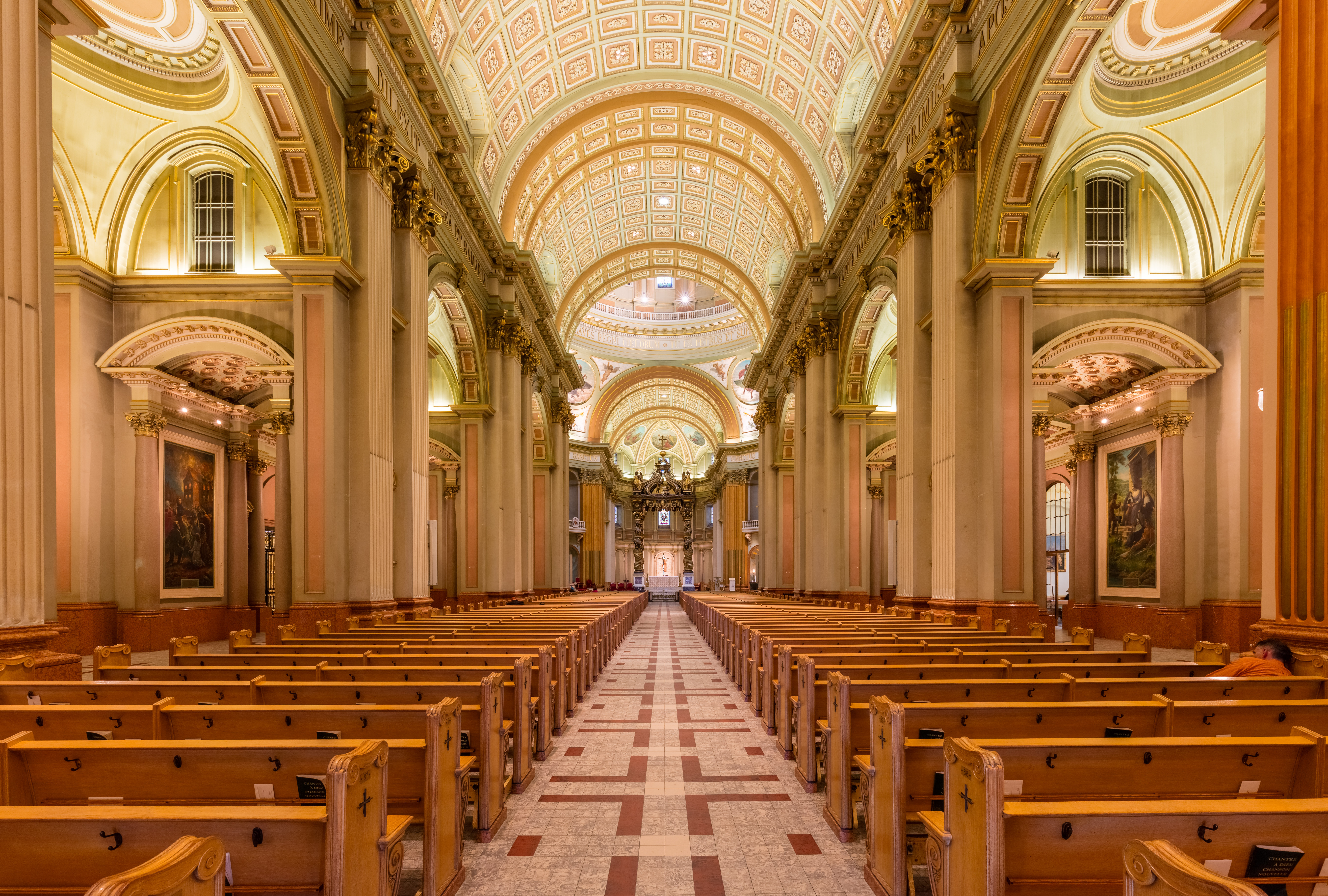 Cathedral-Basilica of Mary, Queen of the World, Montreal, Canada. The construction of the cathedral, ordered by Ignace Bourget, began in 1875 in order to replace the former Saint-Jacques Cathedral which had burned in 1852. The building is a scale model of Saint Peter's Basilica in Rome and the new church was consecrated in 1894. In 2000 the cathedral was designated a National Historic Site of Canada.